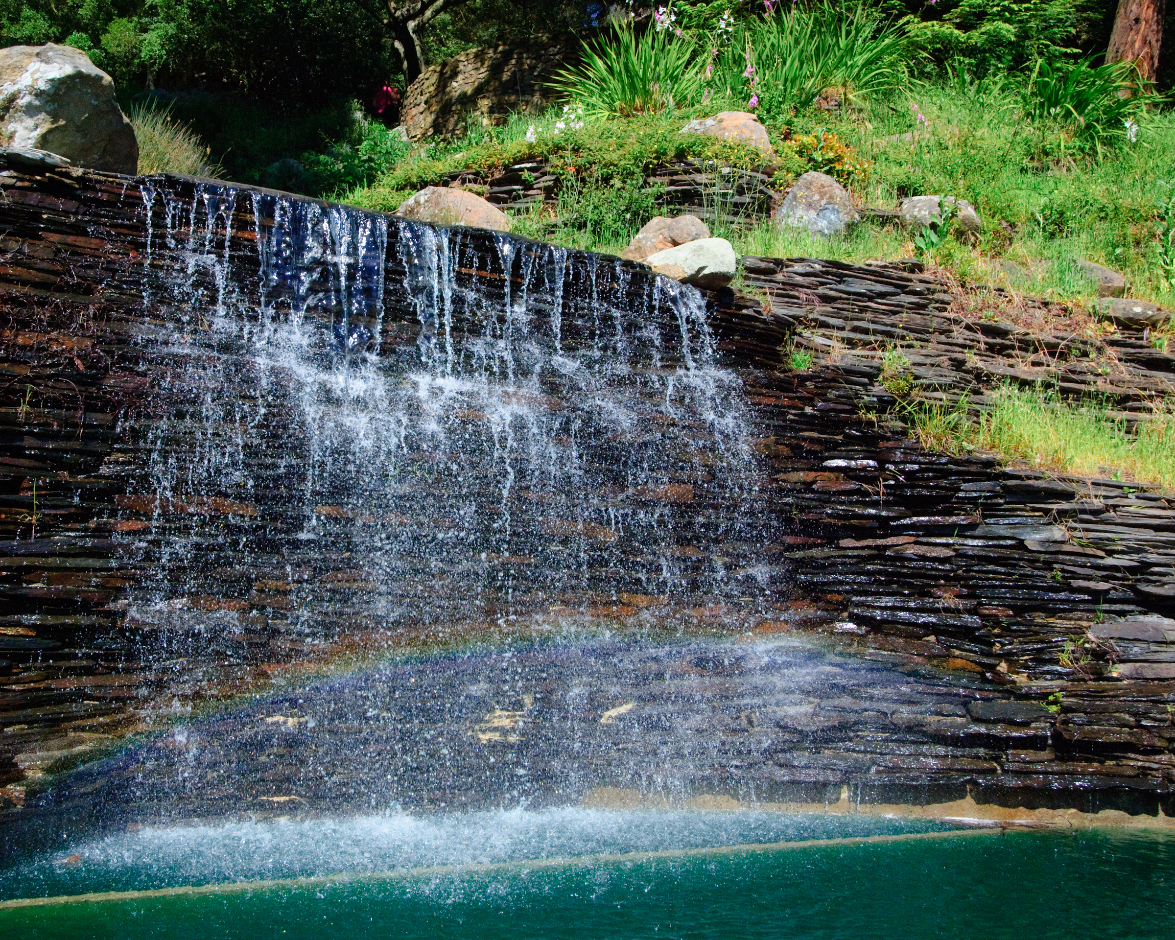 The Cascade Waterfall in Joaquin Miller Park